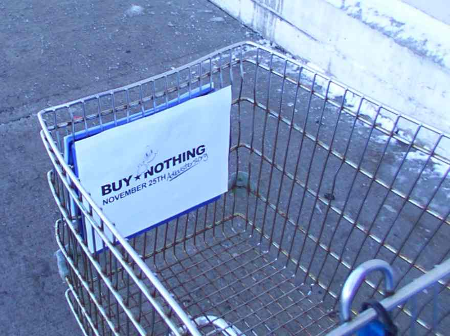 so we hit up our local walmart mall for buy nothing day. Remarkably we put up signs handed out cards and were quite loud about the cause and we were not removed from the property at all. Everyone was quite receptive to us. Attached are the pictures. Enjoy- Cathy Birch